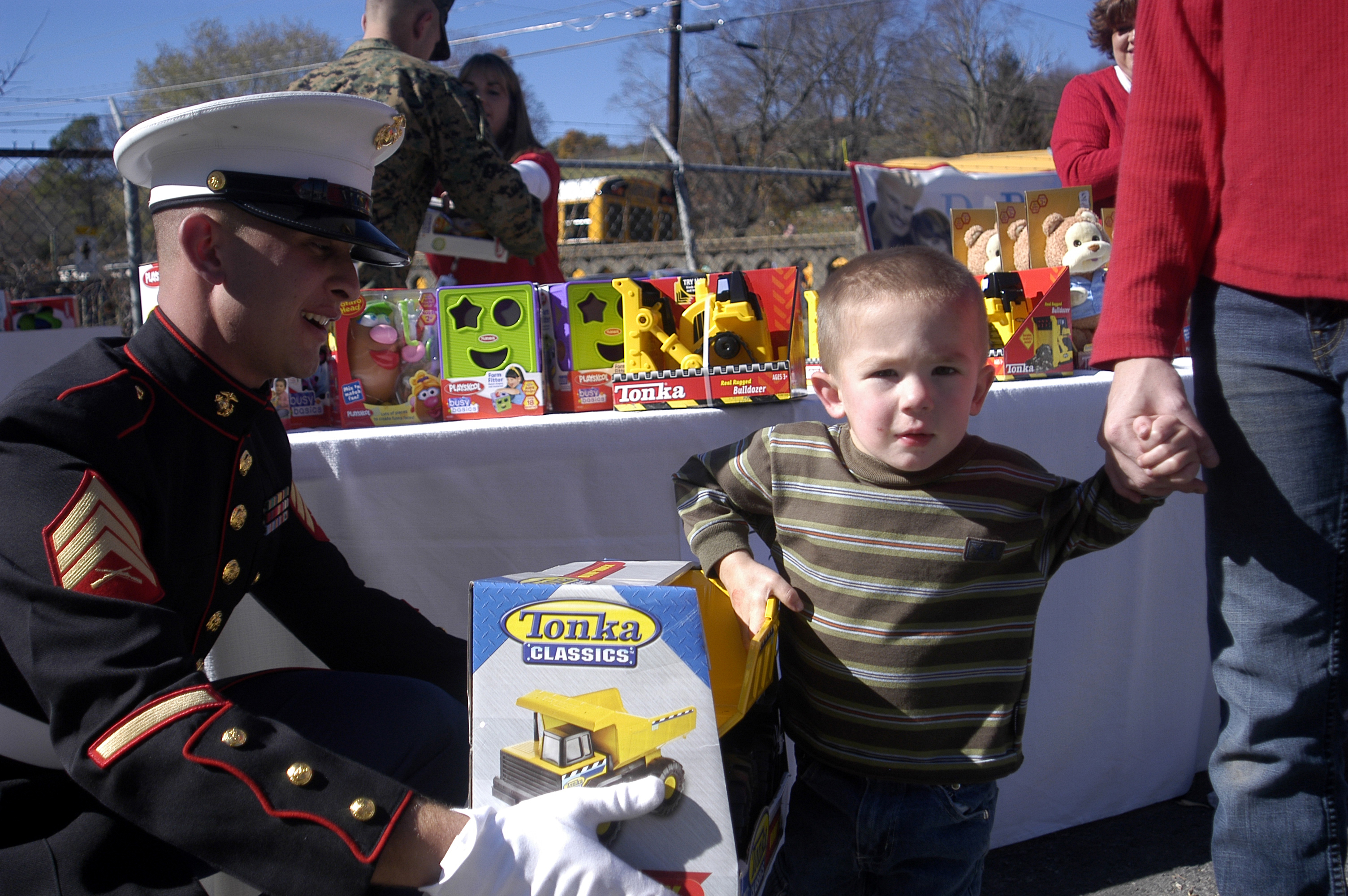 Sgt. Carl A. Orosz, motor transportation chief, 4th Combat Engineer Battalion, gives a toy truck to Logan Creasy at a toy distribution center in Tazewell, Va. Orosz was a part of the Toys for Tots Foundation's 60th Anniversary kickoff here Nov. 2. Official photo by Sgt. Johnathan D. Herring.